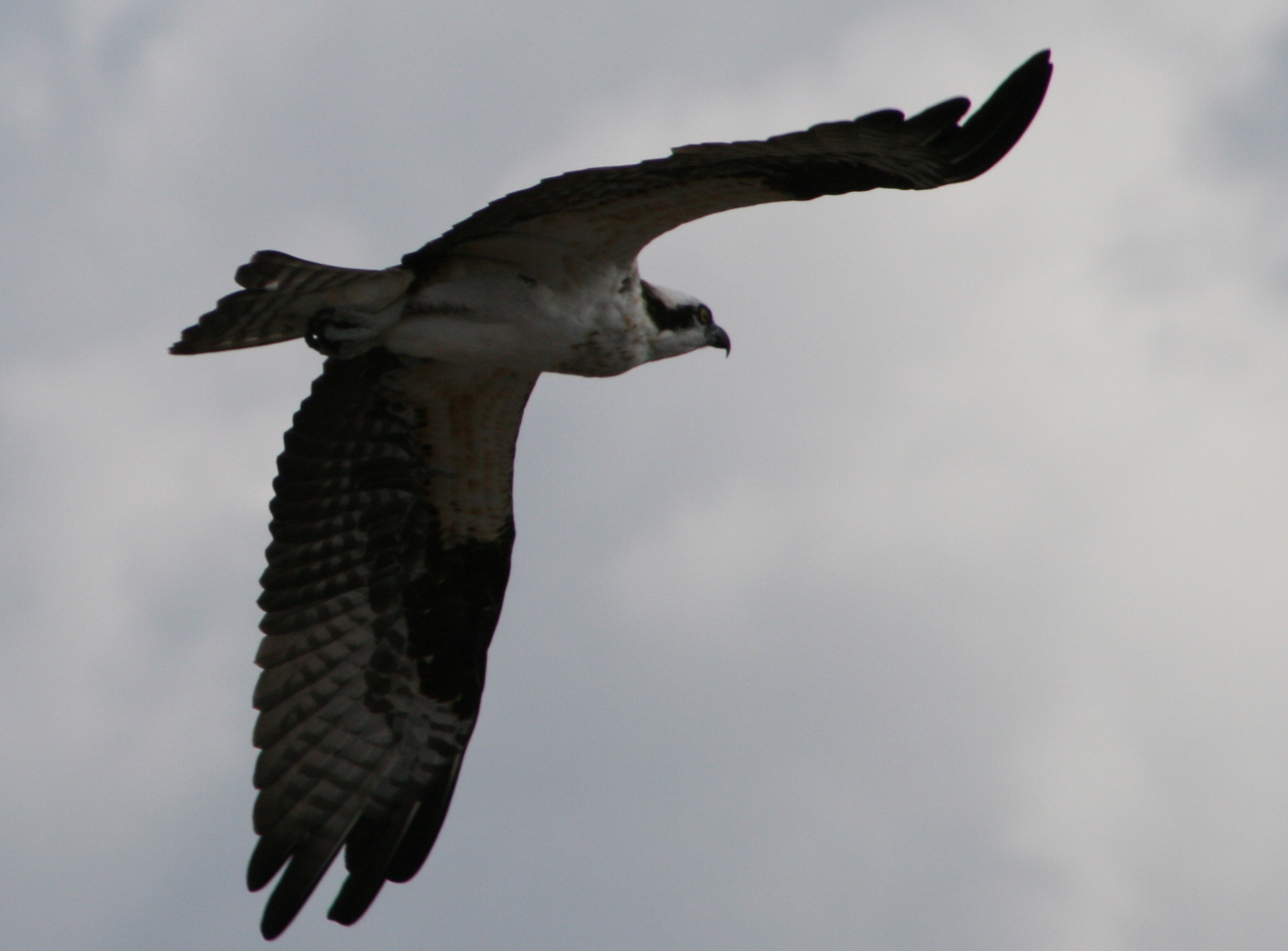 Picture taken right outside my apartment in Boca Raton, FL on 2/25/2009.